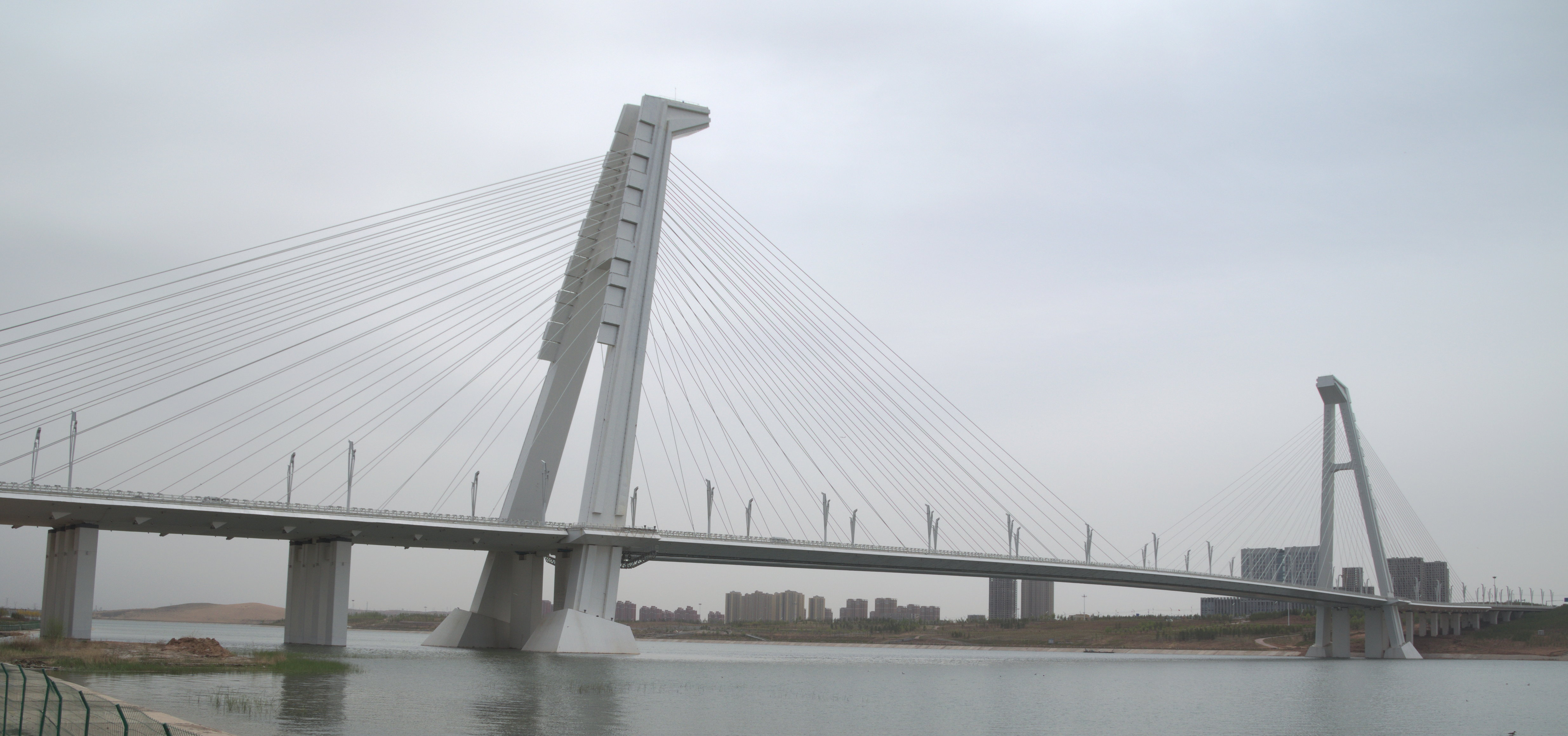 Kang Bashi Great Bridge (康巴什大桥), in the new district of Kang Bashi at Ordos, Inner Mongolia, China.